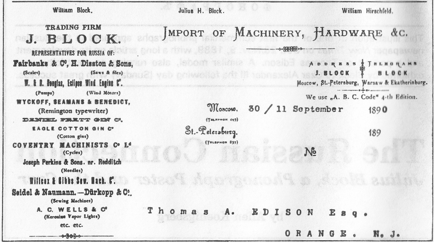 Trading firm “J. Block”. 1890